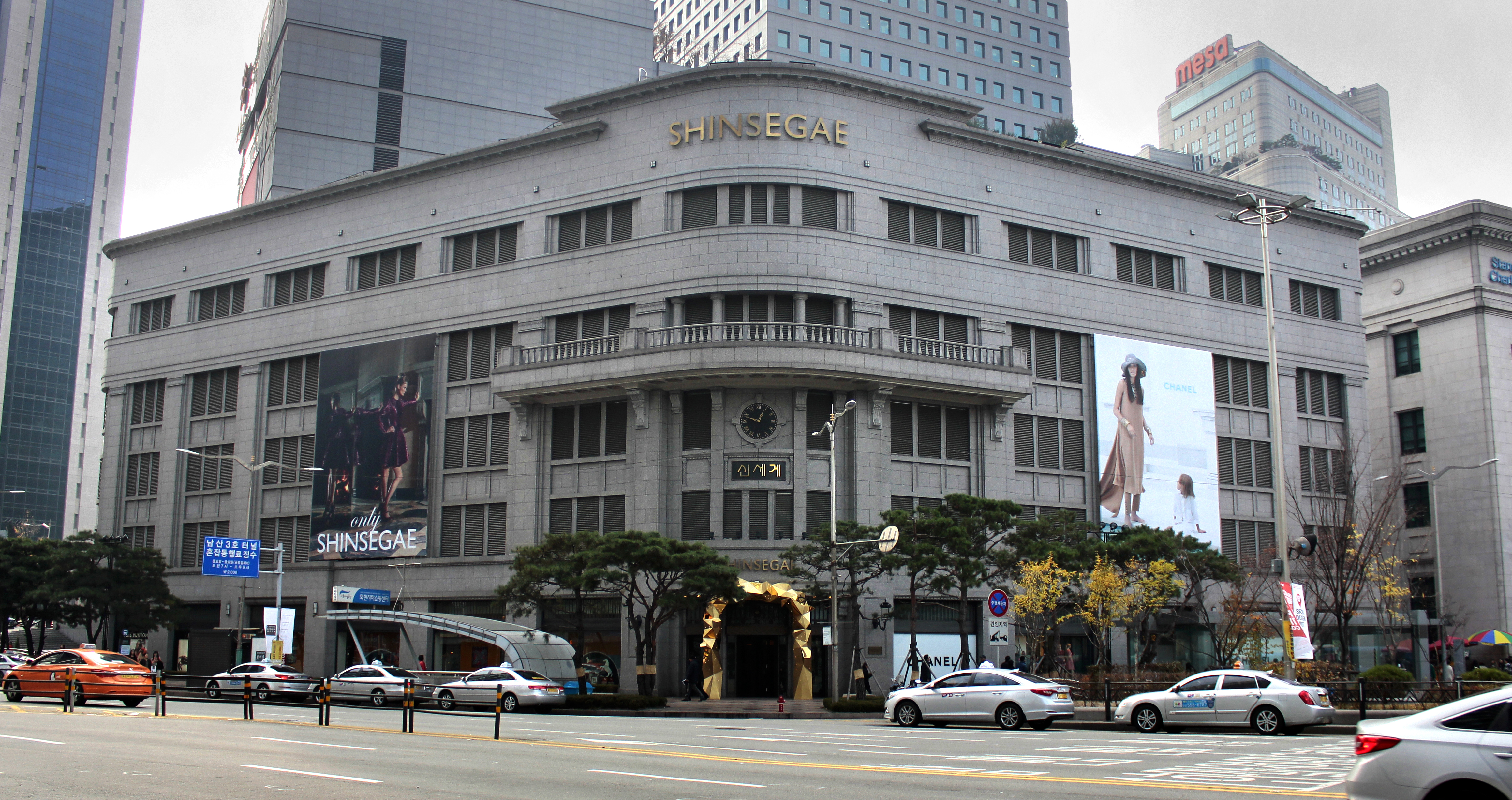 @Jung-gu, Seoul Former Mitsukoshi Department Store Keijo